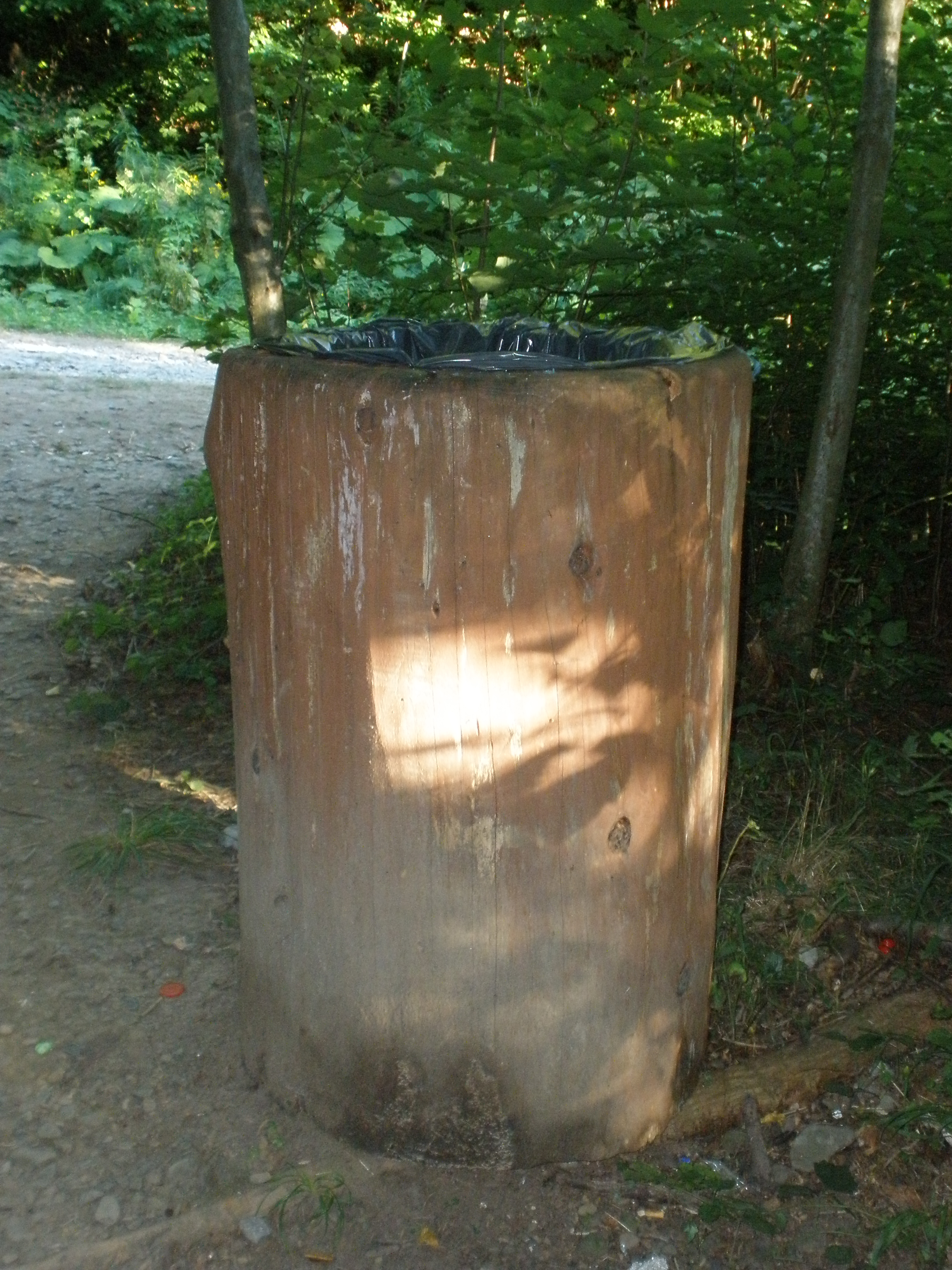 Garbage can at the Natural Reserve Sine Wiry, in Poland.